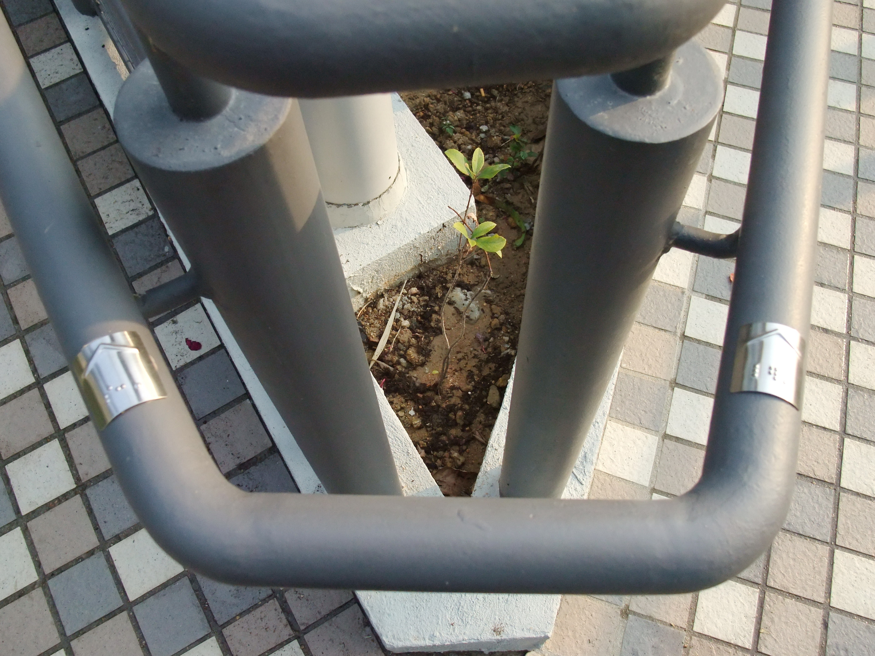 A braille tactile signage on a handrail inside a park in Hong Kong